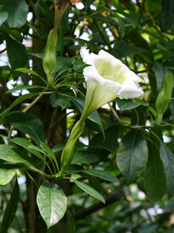 Solandra grandiflora